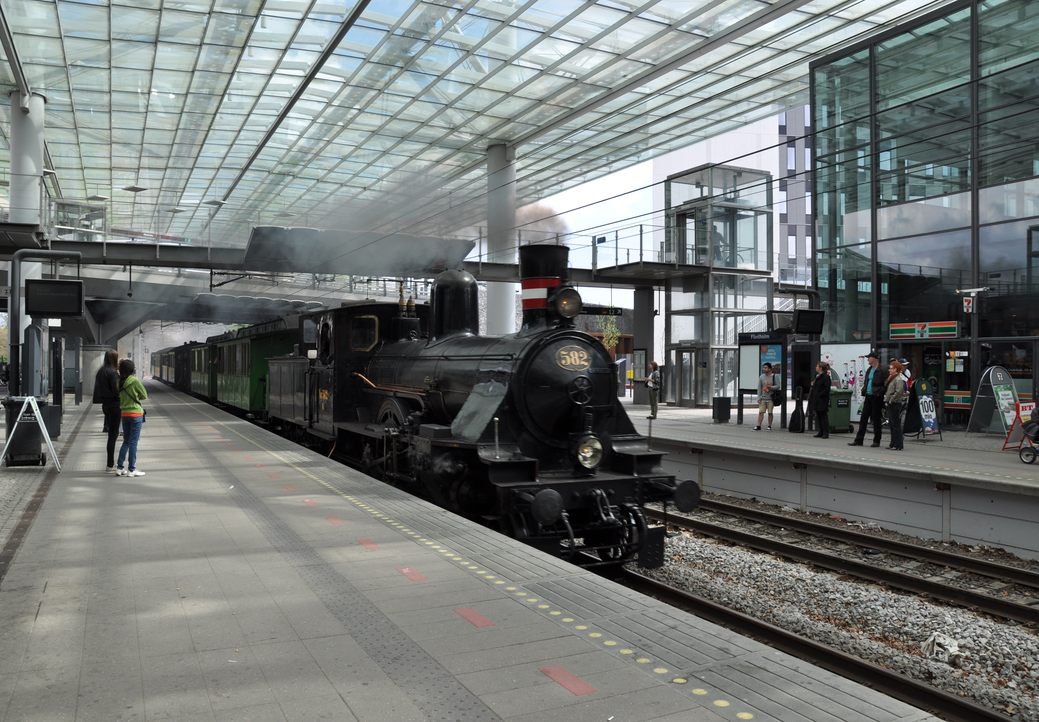 A spectacular view: A train with the steam locomotive K582 drives through the top-modern Flintholm Station near Copenhagen. The locomotive and the cars are owned by Nordsjællands Veterantog ("Restored Trains of North Zealand").